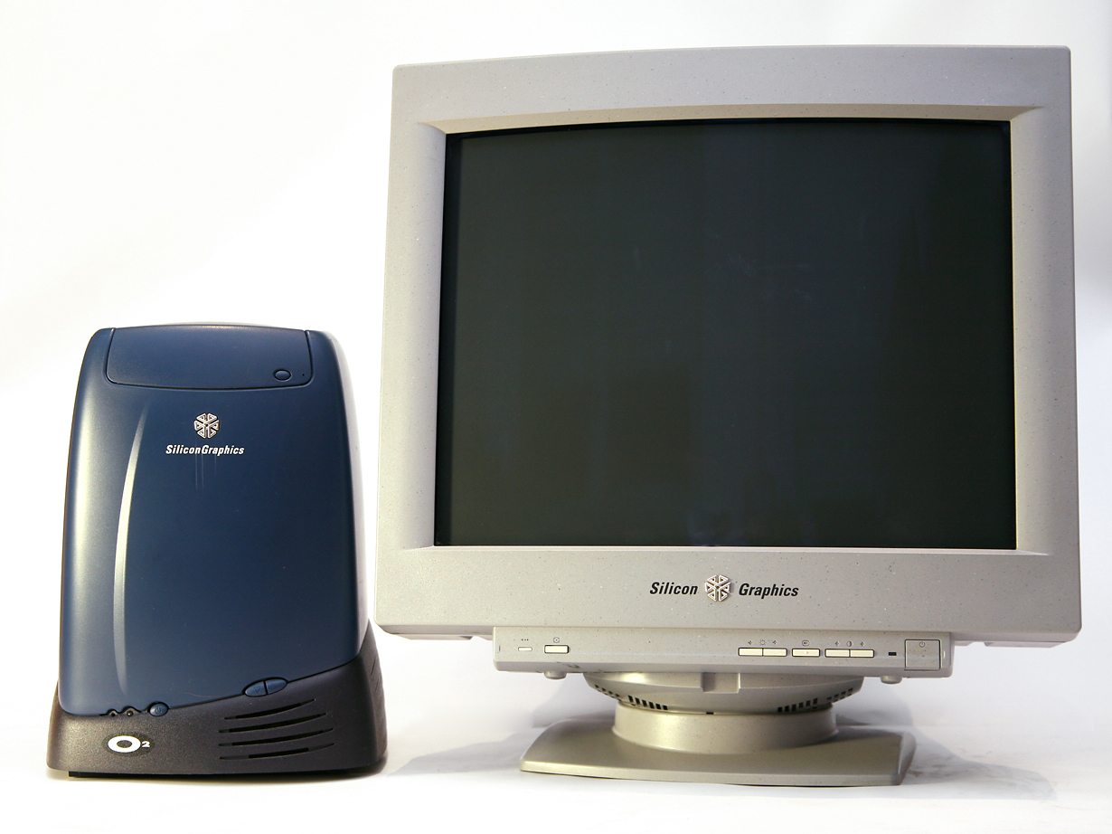 SGI O2 with SGI 21" CRT